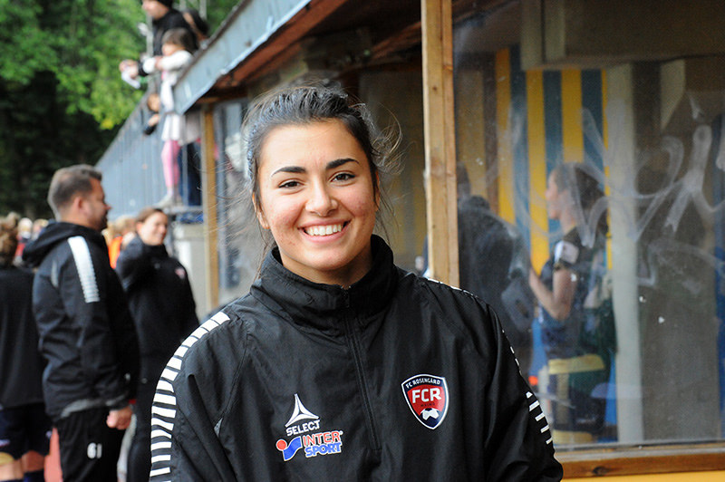 Zecira Musovic in September 2015